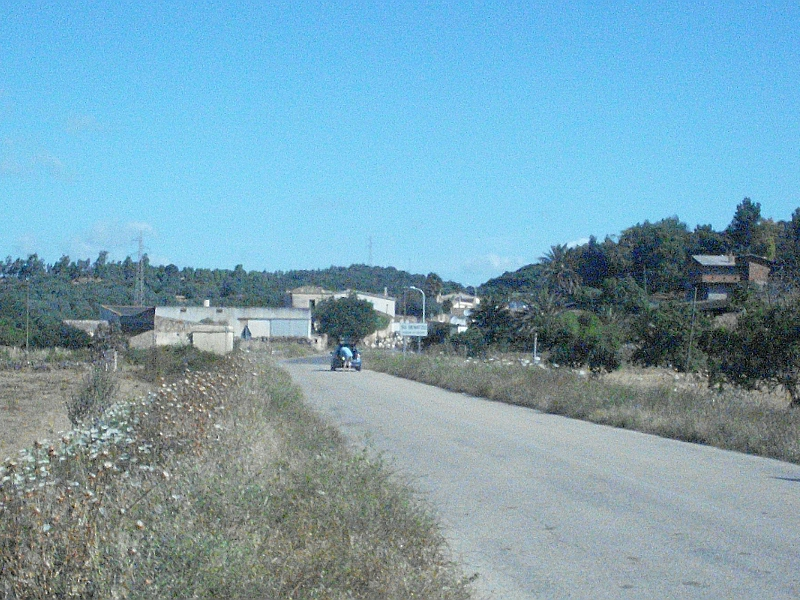 Village Su Benatzu (Santadi, Sardinia, Italy)